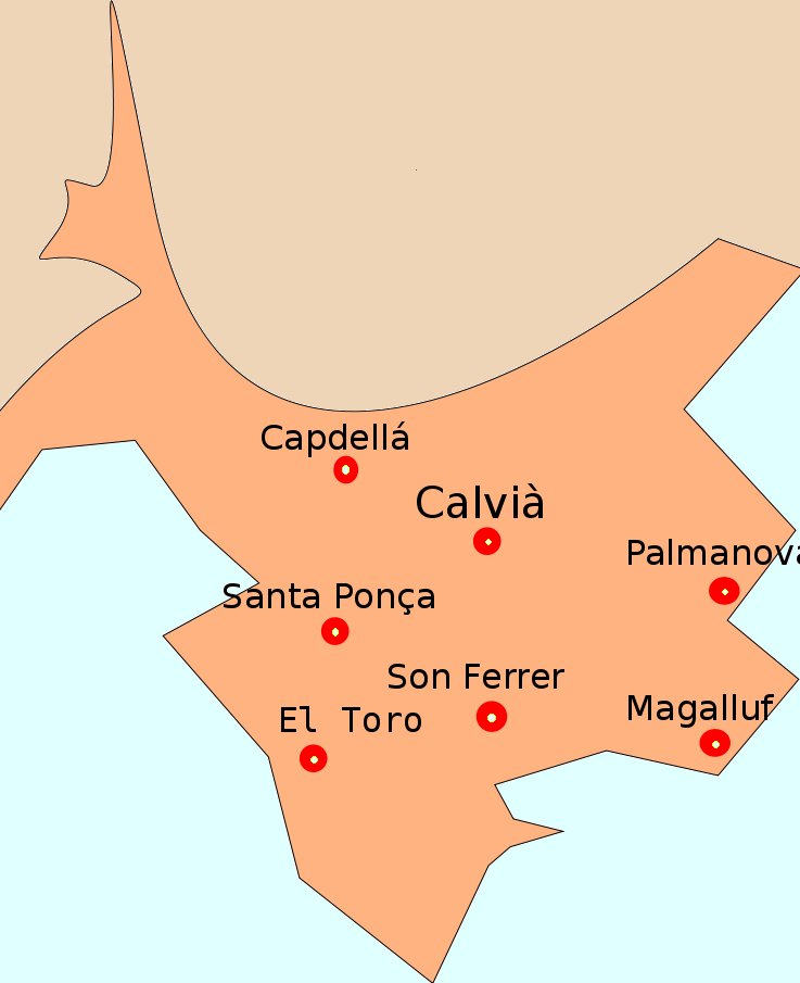 A political map of the spanish municipality of Calvià in Mallorca.